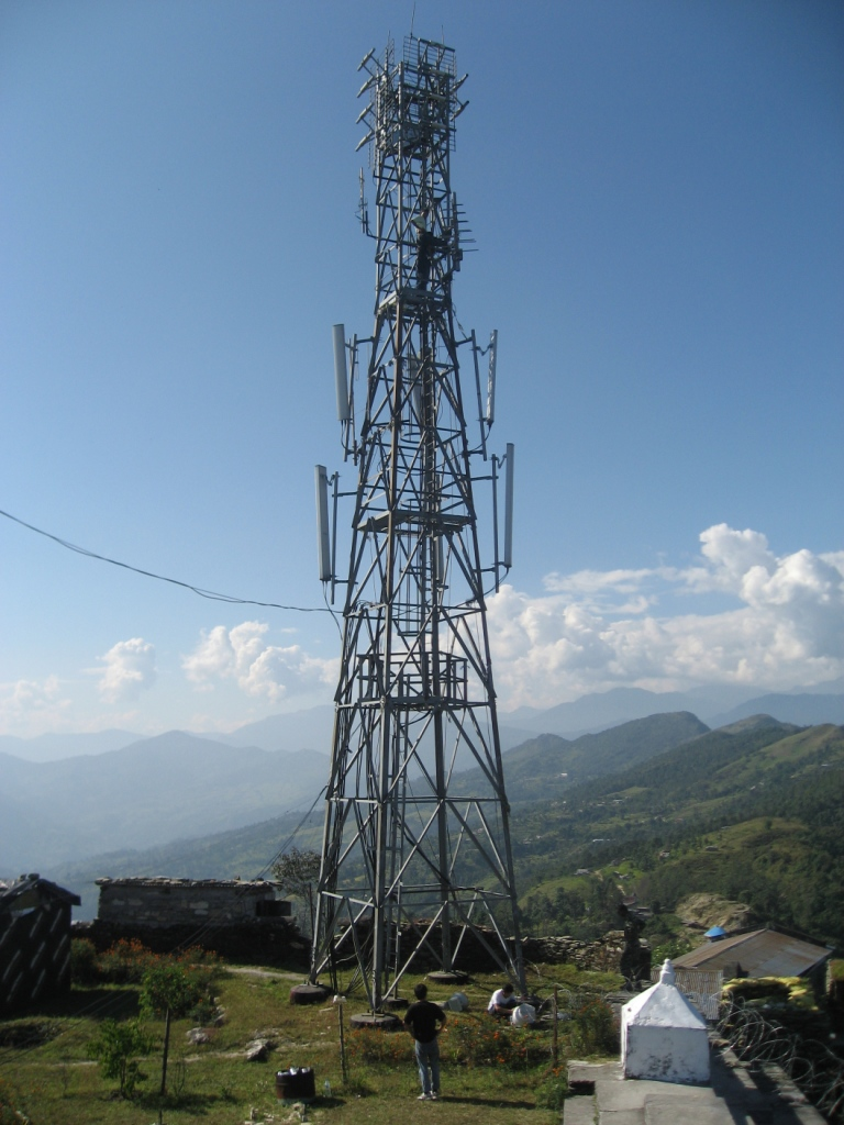 Phewa Lake